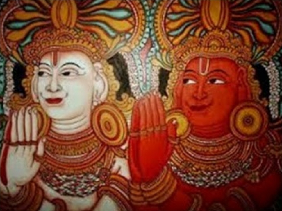 Los gemelos Ashwini kummaras hijos del dios sol Suria. Dioses vedico que representan el brillo del amanecer y el atardecer